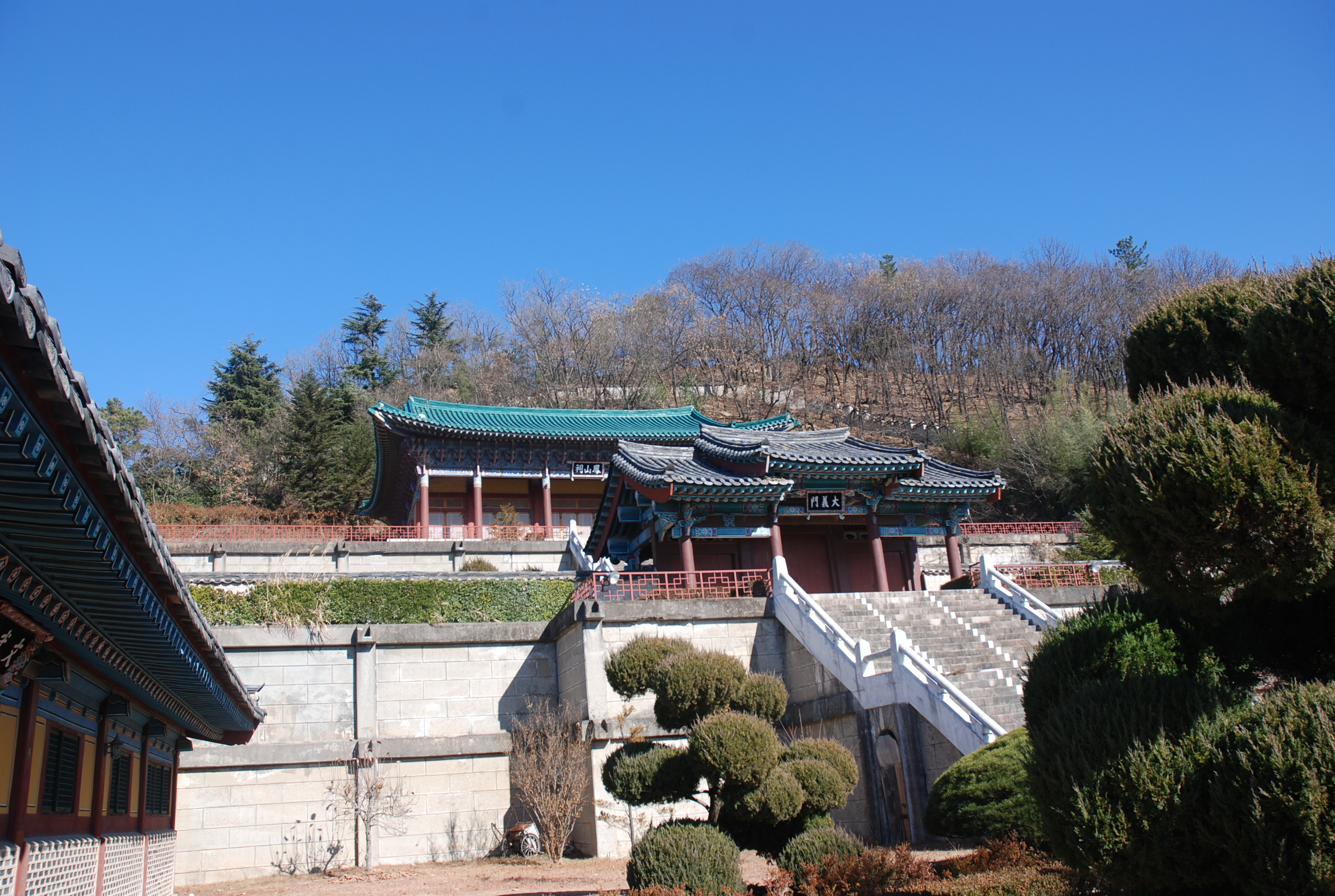 Bongsan Shrine in Jinju